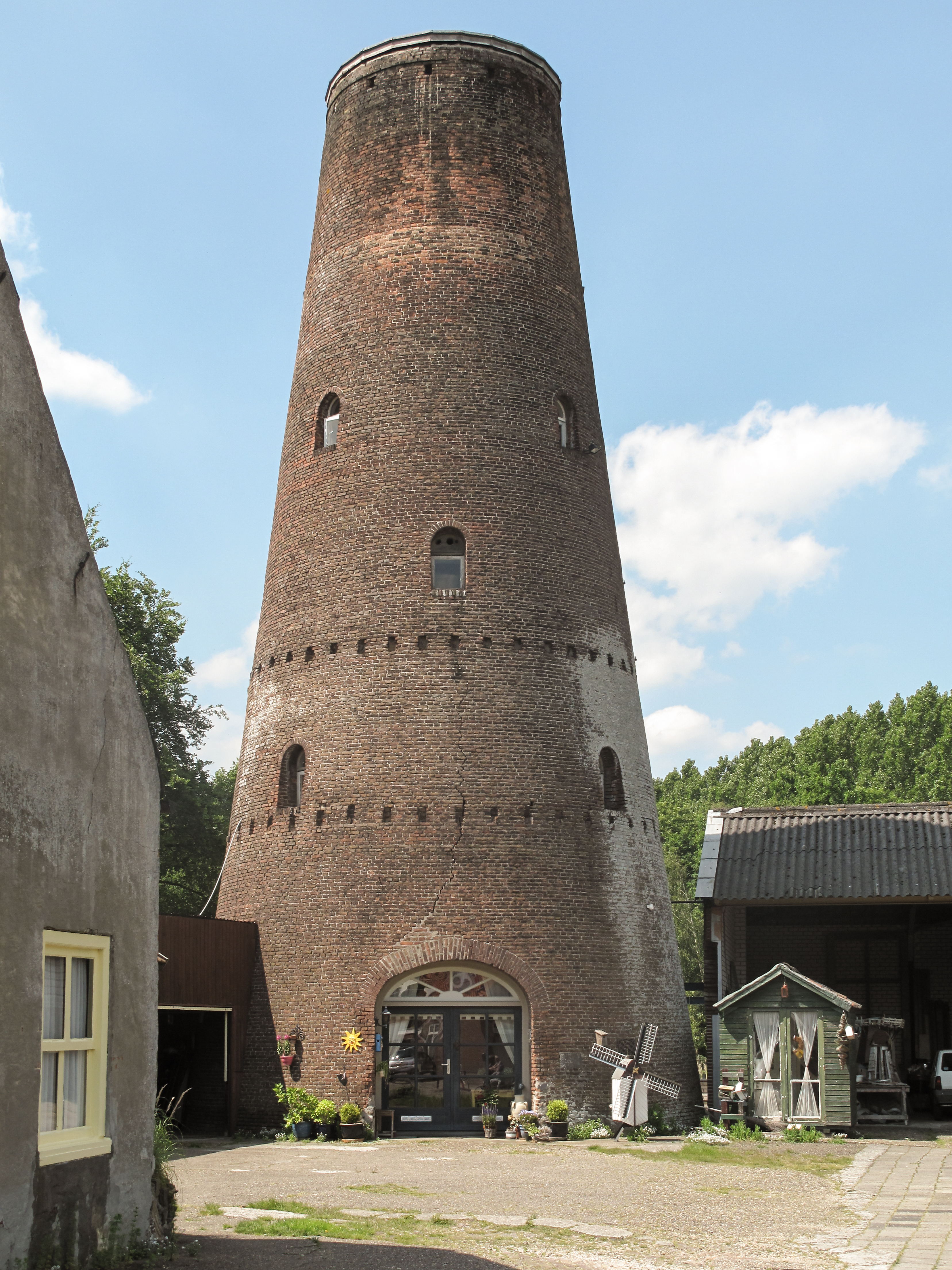 Sint Oedenrode, mill hull